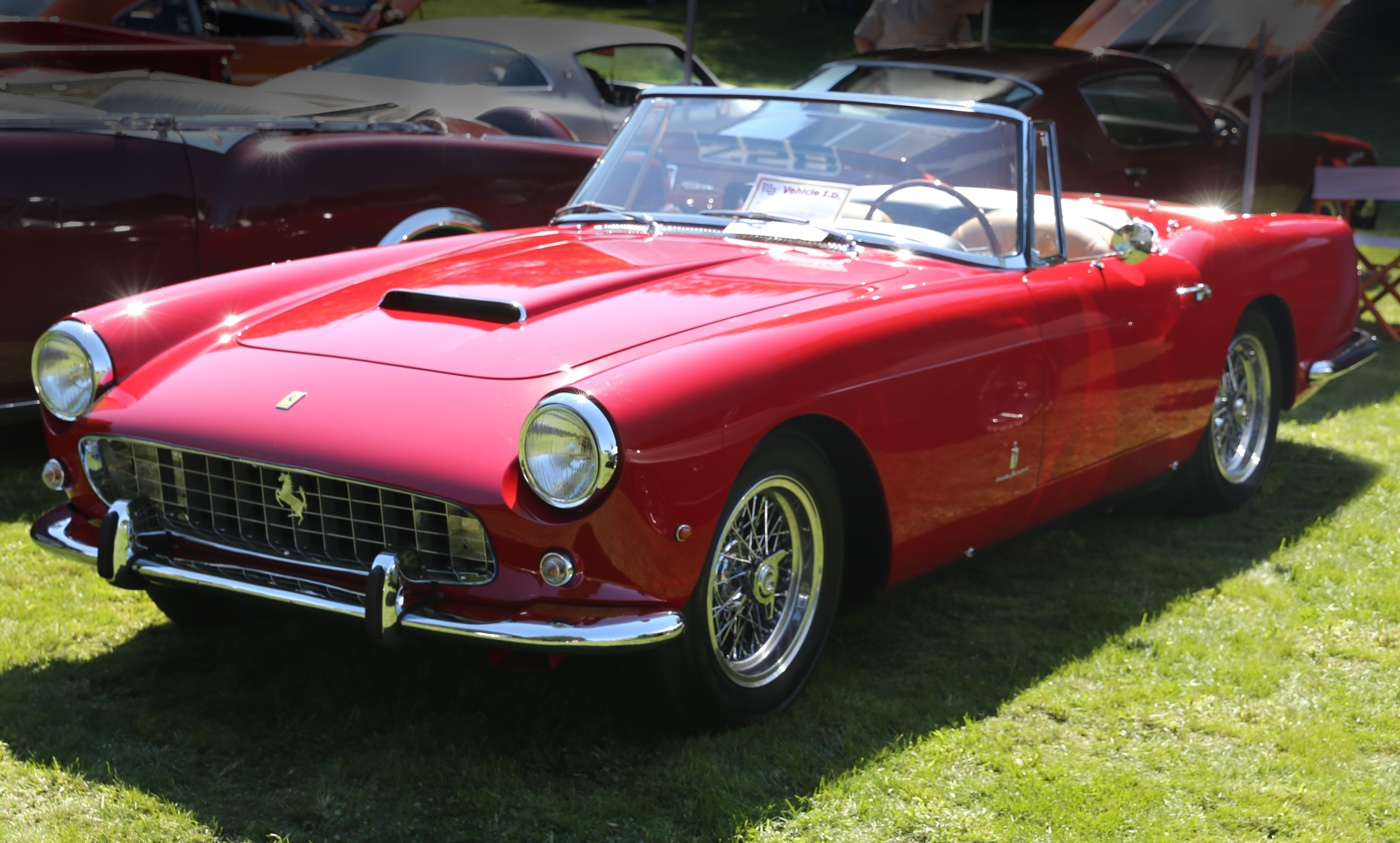 Ferrari 250 GT Pininfarina Cabriolet series II at a classic car show in Water Mill, NY.